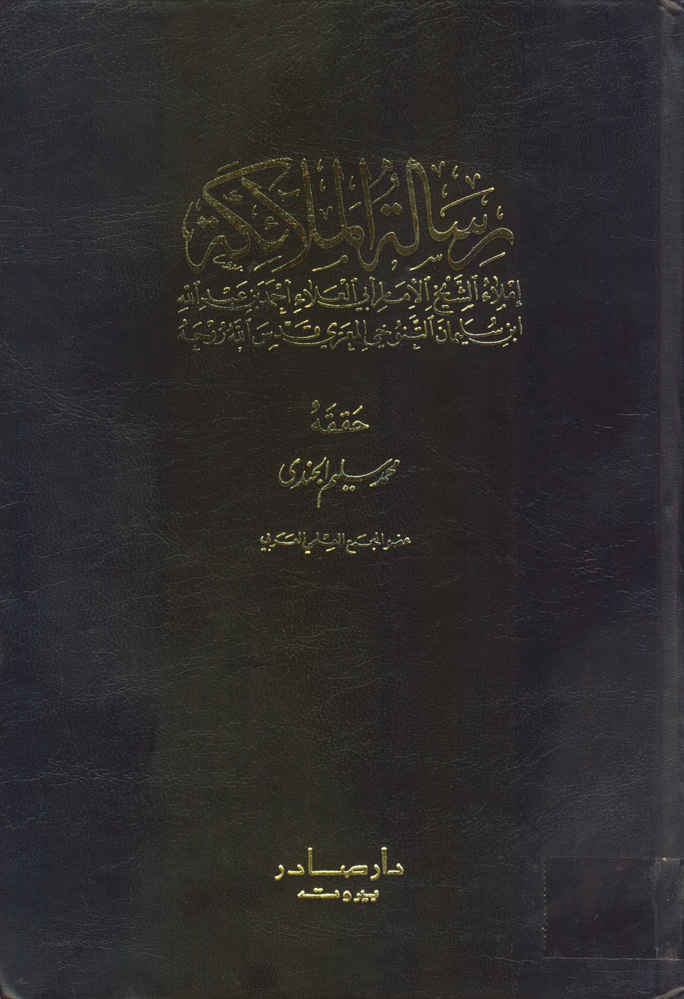 Risalat al-Malaika a-Maarri